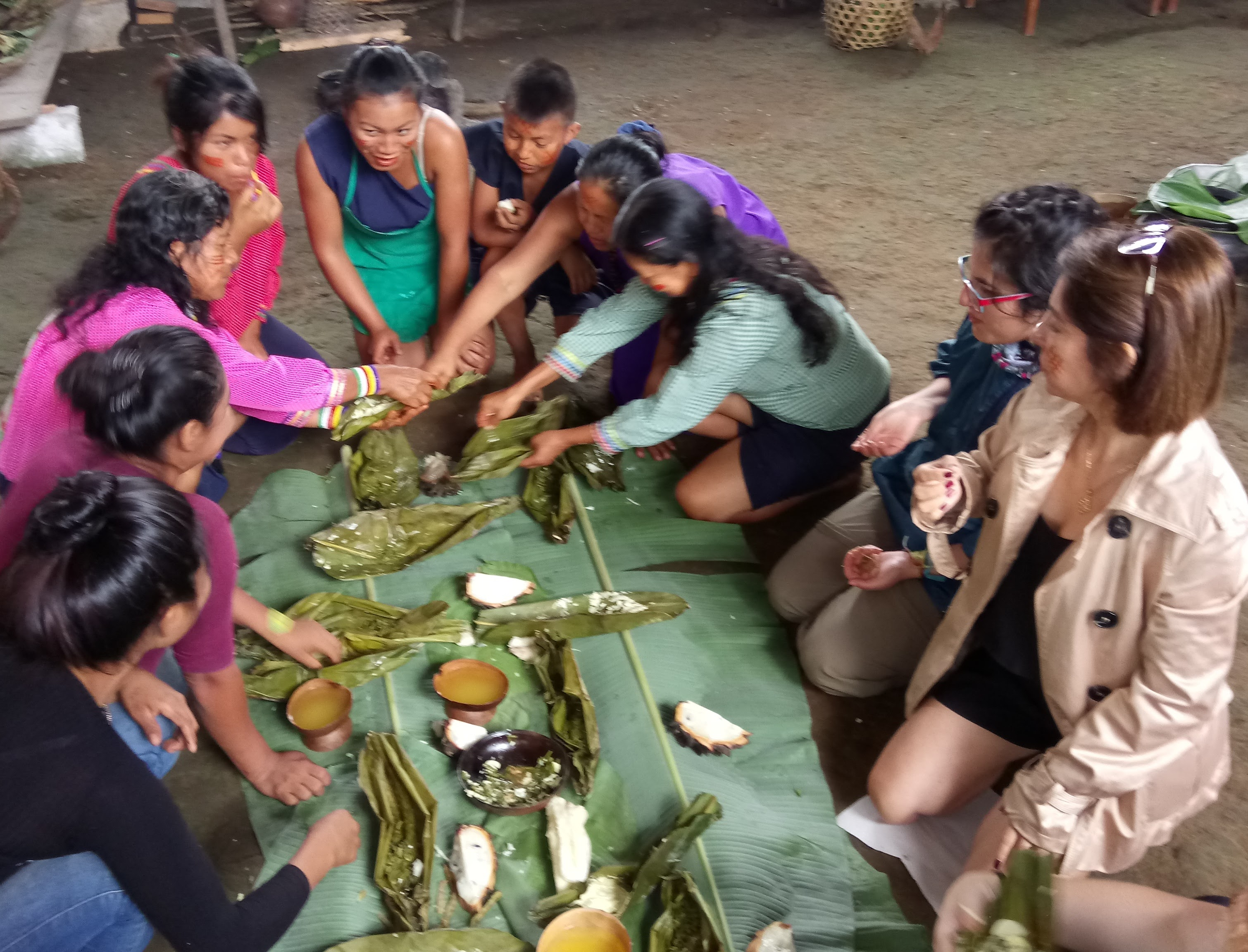 Hojas de plátano (palanda panga) son utilizadas como especie de mantel, para servir los alimentos.